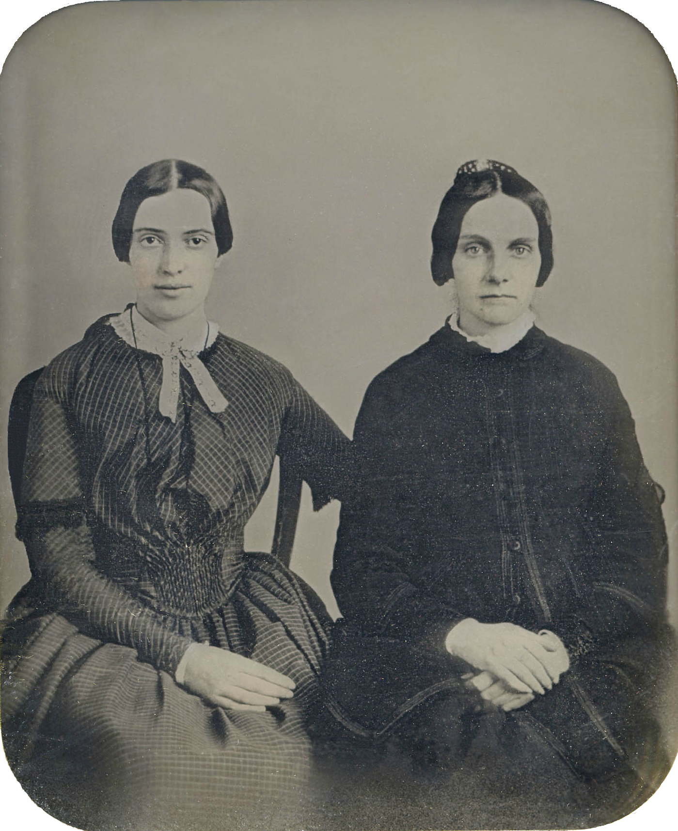 Perhaps a daguerreotype of Emily Dickinson (left) and her friend Kate Scott Turner, c.1859.